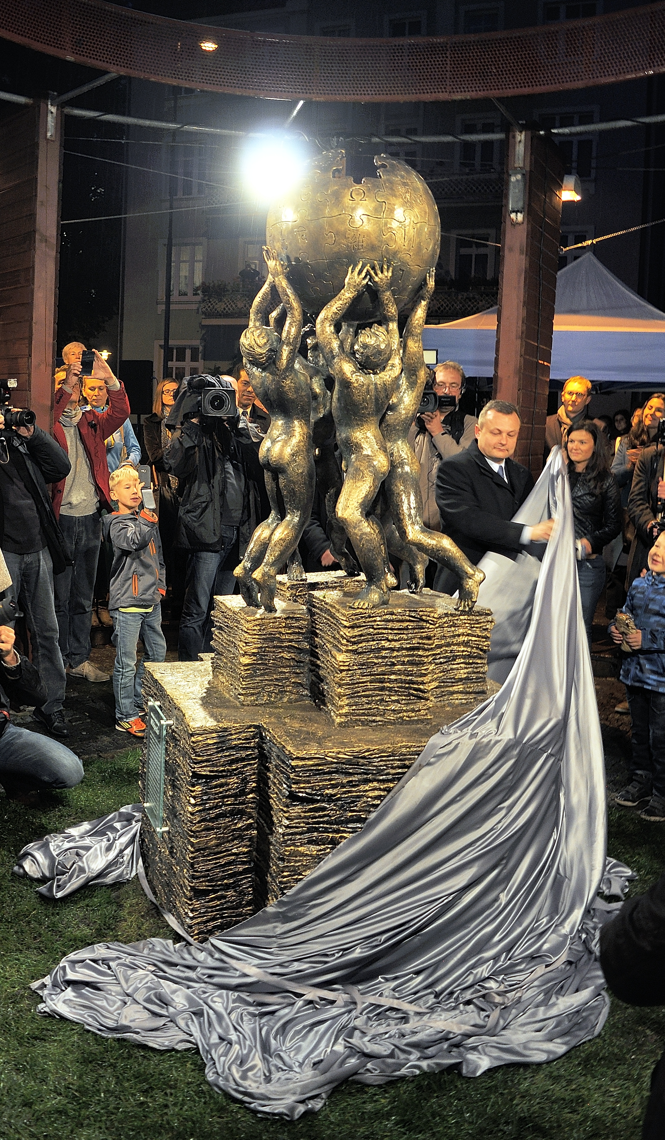 Celebration of the Wikipedia monument in Słubice. Unveiling.